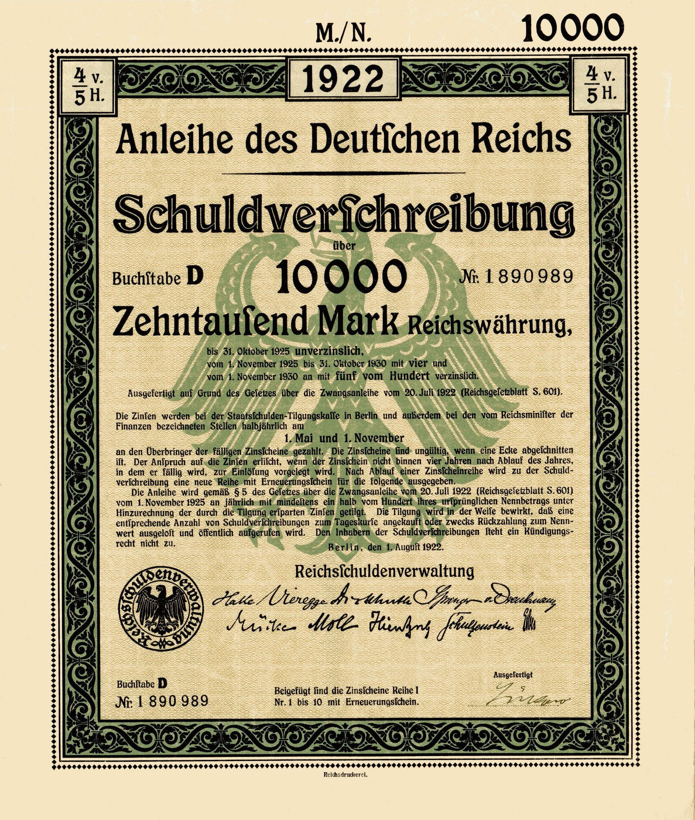 Bond of the Deutsche Reich, issued 1. August 1922 by the Reichsschuldenverwaltung